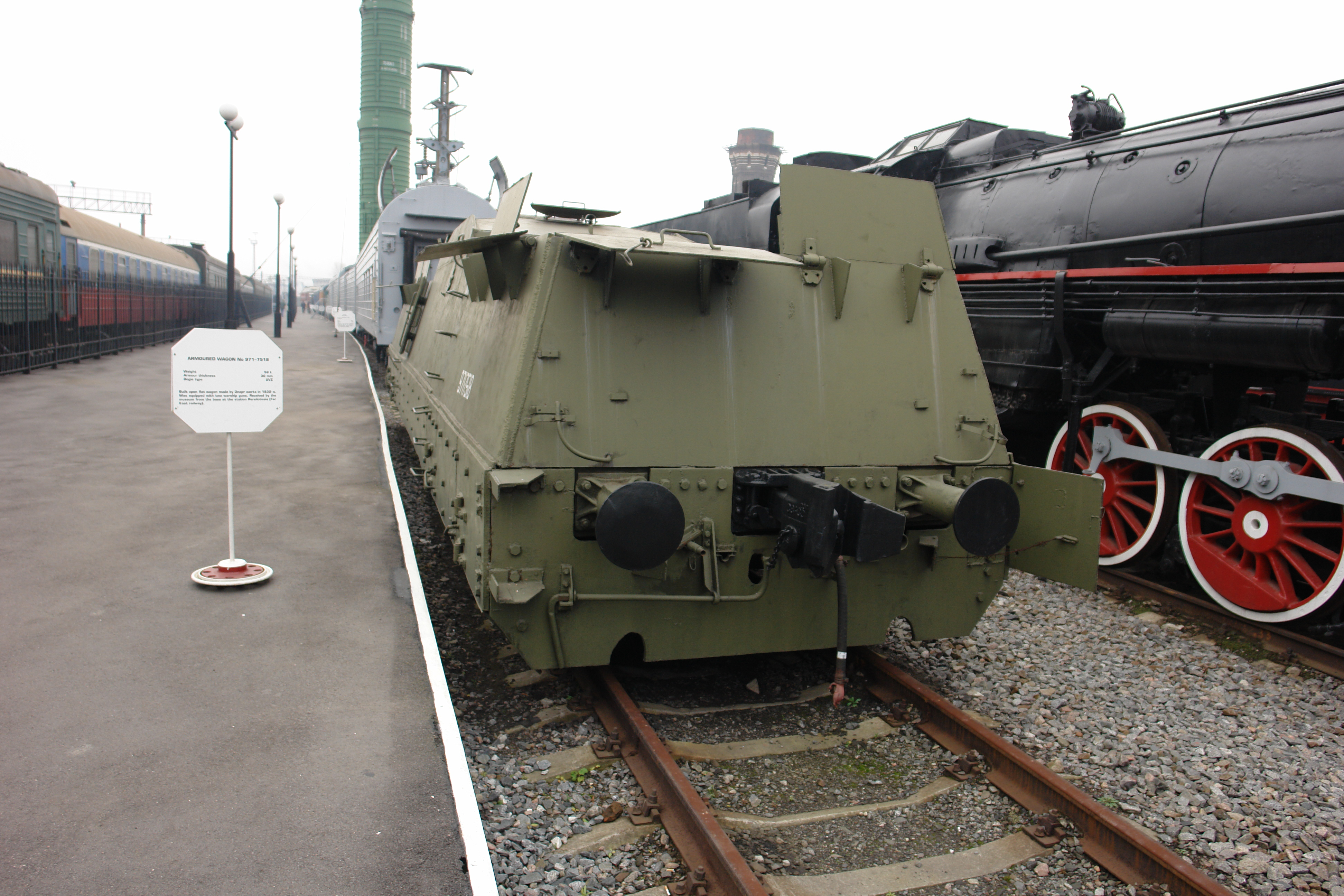 Armoured wagon No 971-7518 Weight56 t.Armour thickness30 mmBogie typeUVZ Built upon flat wagon made by Dnepr works in 1930-s. Was equipped with two warship guns. Received by the museum from the base at the station Pereliotnaia (Far East railway).